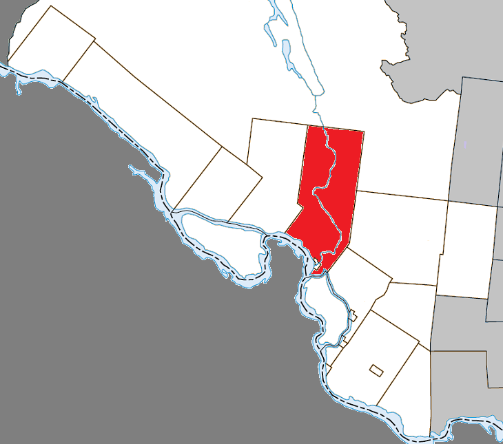 Location of Mansfield-et-Pontefract, Quebec within Pontiac Regional County Municipality.